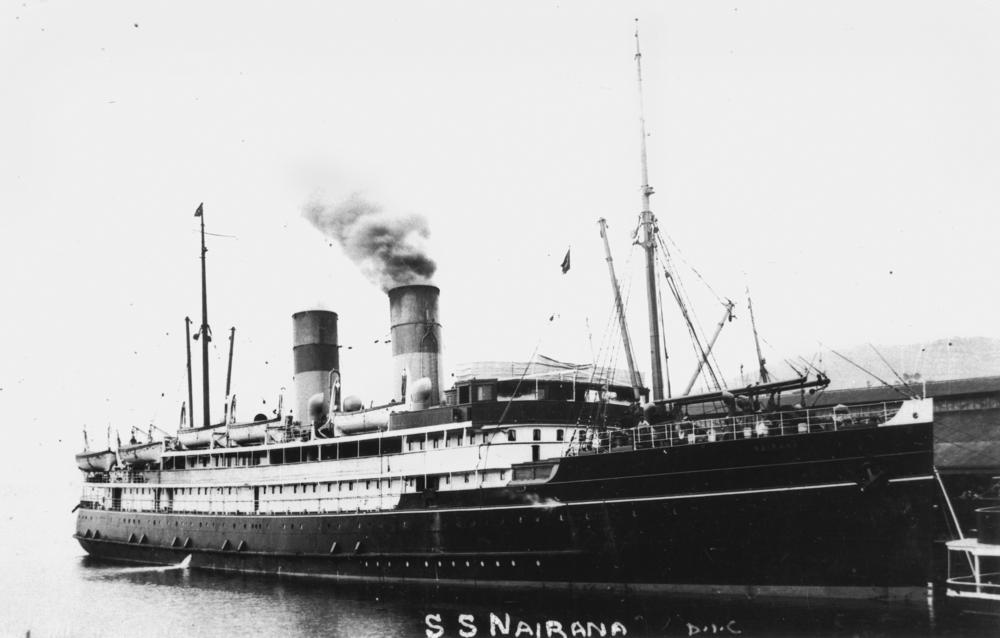 Bass Strait ferry Nairana, a turbine steamship built in 1914–15 by William Denny and Brothers of Dumbarton, Scotland. When the First World War broke out the Admiralty took over the uncompleted ship and had her completed as a seaplane carrier. In the saloon she had a brass plate telling of her war record. (From description supplied with photograph). In 1921 she was restored to her civilian owner Huddert Parker, and in 1922 she was transferred to Tasmanian Steamers. She was scrapped in 1953–54.